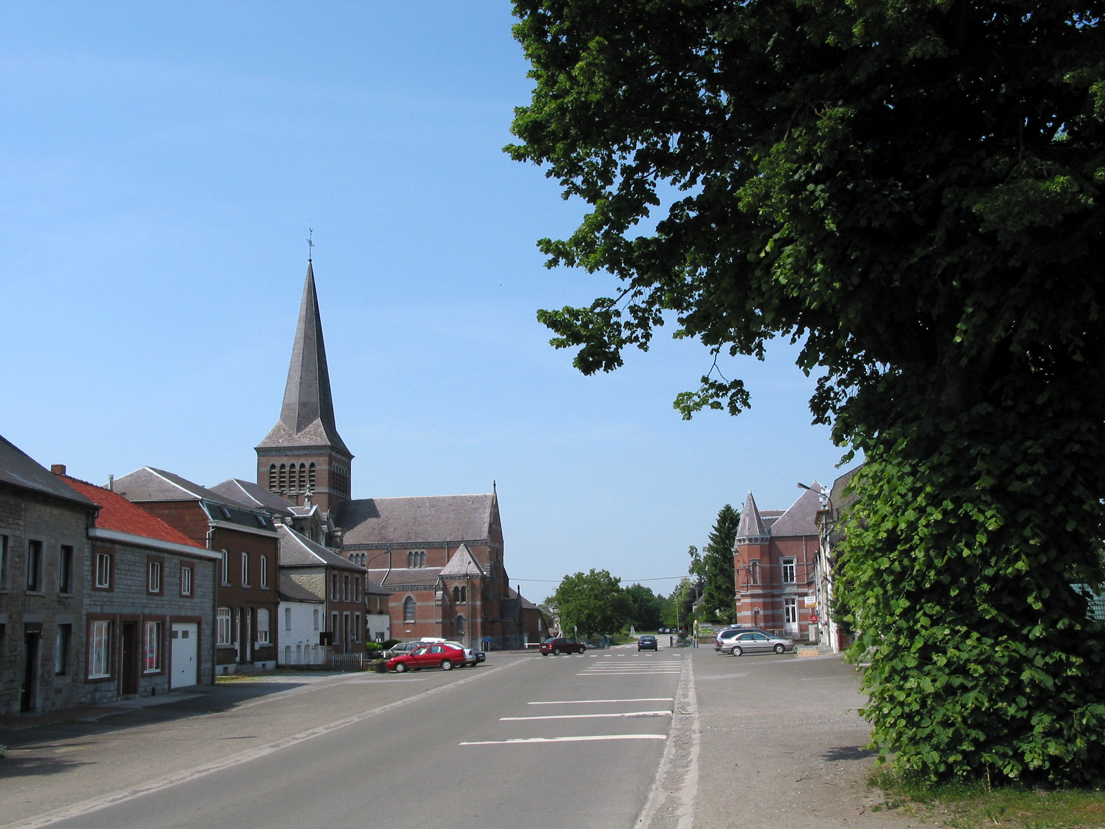 Bourlers (Belgium), the neighbourhood of the church.